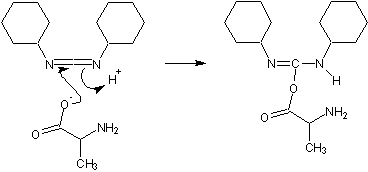 alanine attaching to DCC